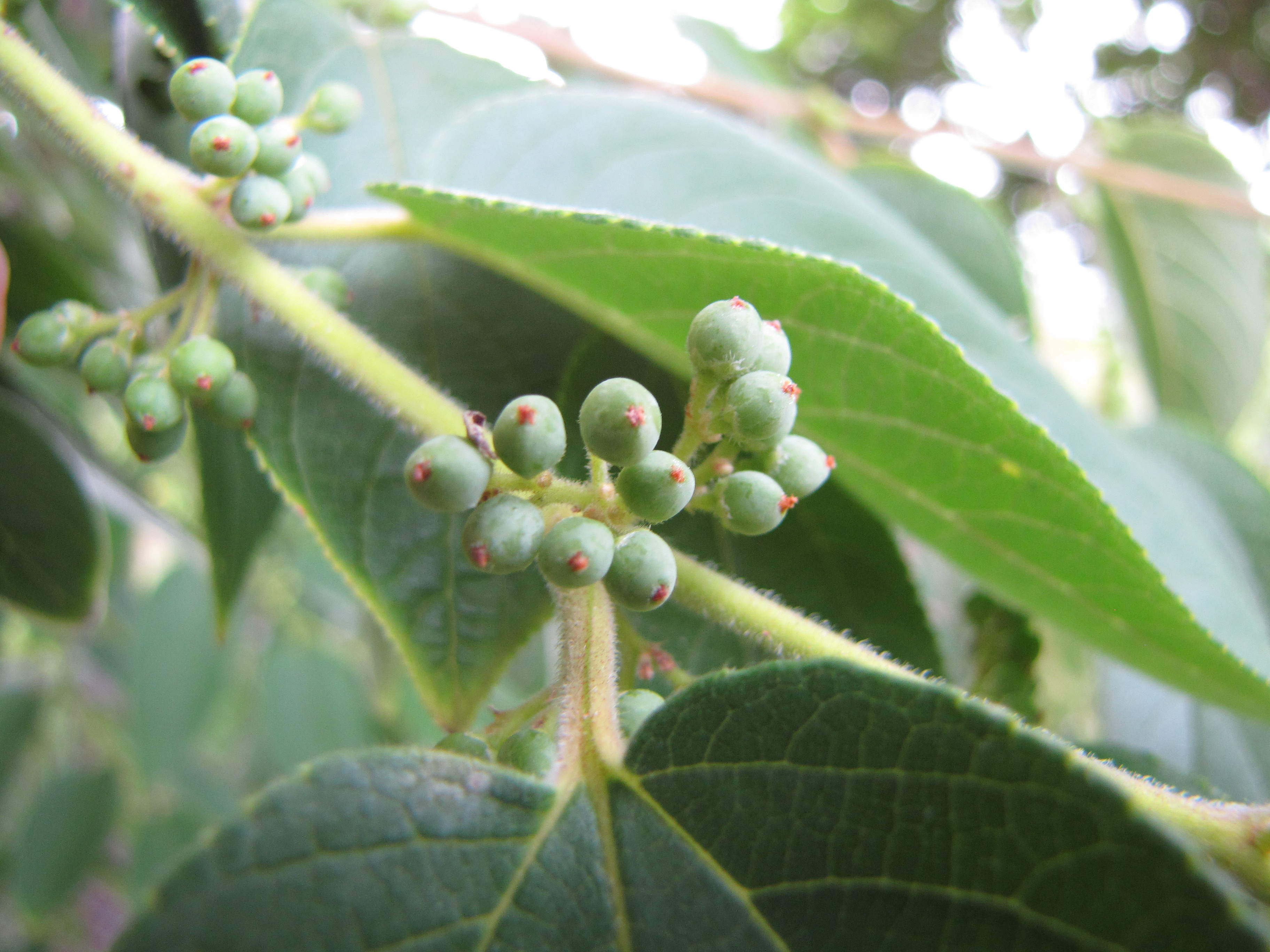 Trema orientalis (Gunpowder tree) Leaves and flower buds at Paani Mai Park Hana, Maui, Hawaii. June 23, 2009 #090623-1713 Image Use Policy Also placed in Ulmaceae.